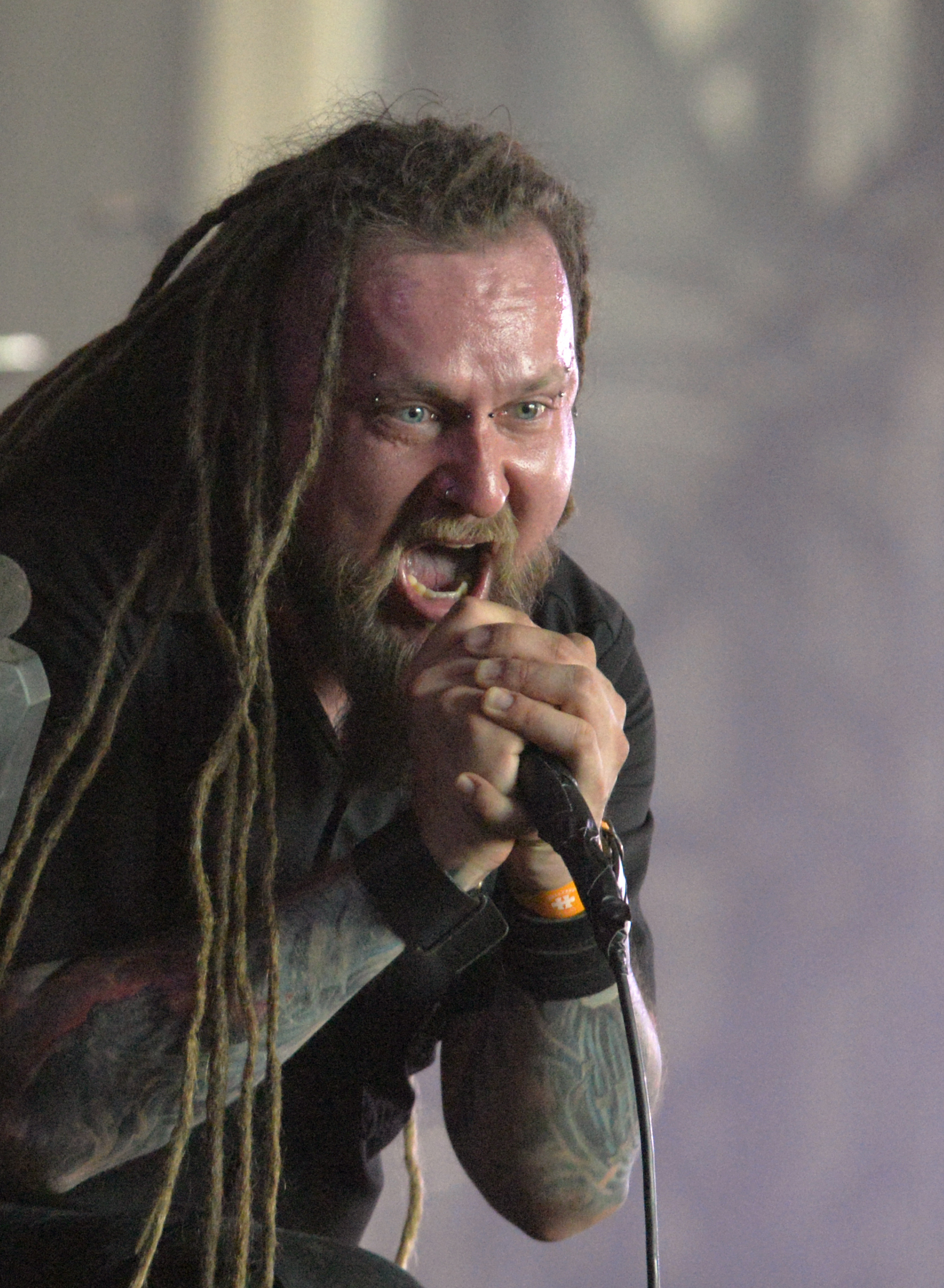 Rafał « Rasta » Piotrowski, singer of polish group Decapitated at Hellfest 2017, France.